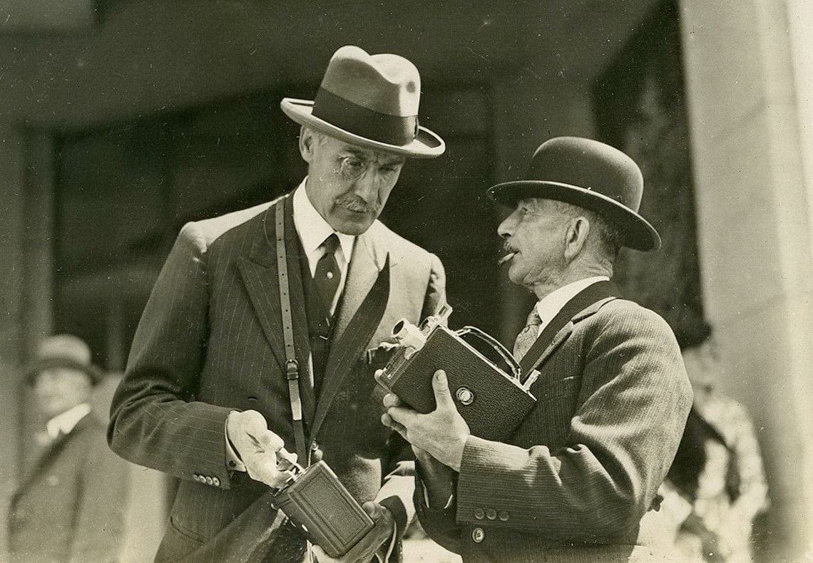 Leslie Hinge (right) with Lord Galway, Governor-General, at Trentham, 1938. Title: Personal photographs, including - Capt. Hill's biplane, Sockburn 1918; views of Oriental Bay, Wellington; Hermitage; Lake Pukaki; Hinge's studio at Government Rail Archives reference: ACCT 8031 W4031 Box 5/26 For more information use our “ask an archivist” link on our website: For updates on our On This Day series and news from Archives New Zealand, follow us on Twitter Material from Archives New Zealand Te Rua Mahara o te Kāwanatanga